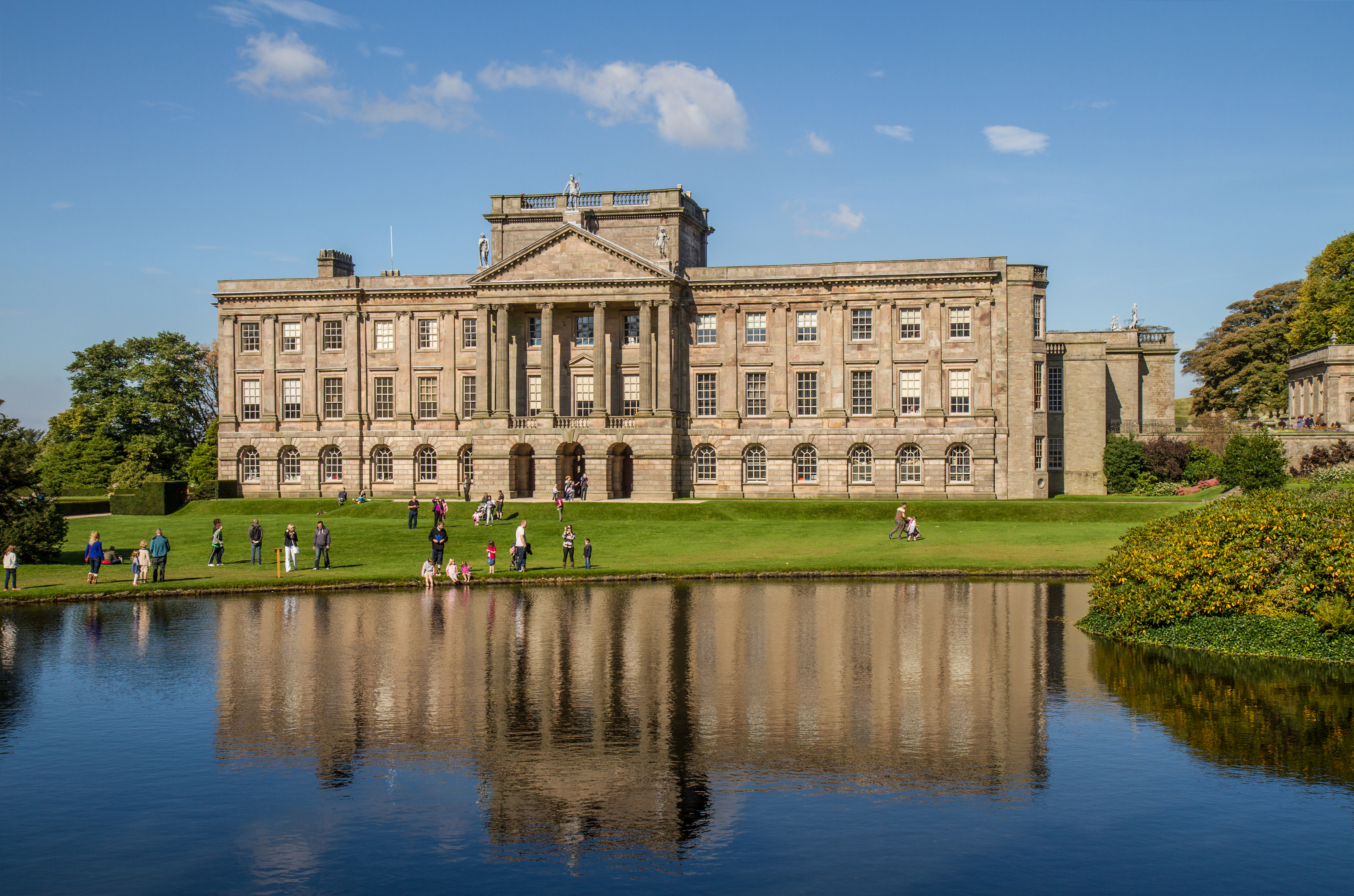 The south face of Lyme Park house.